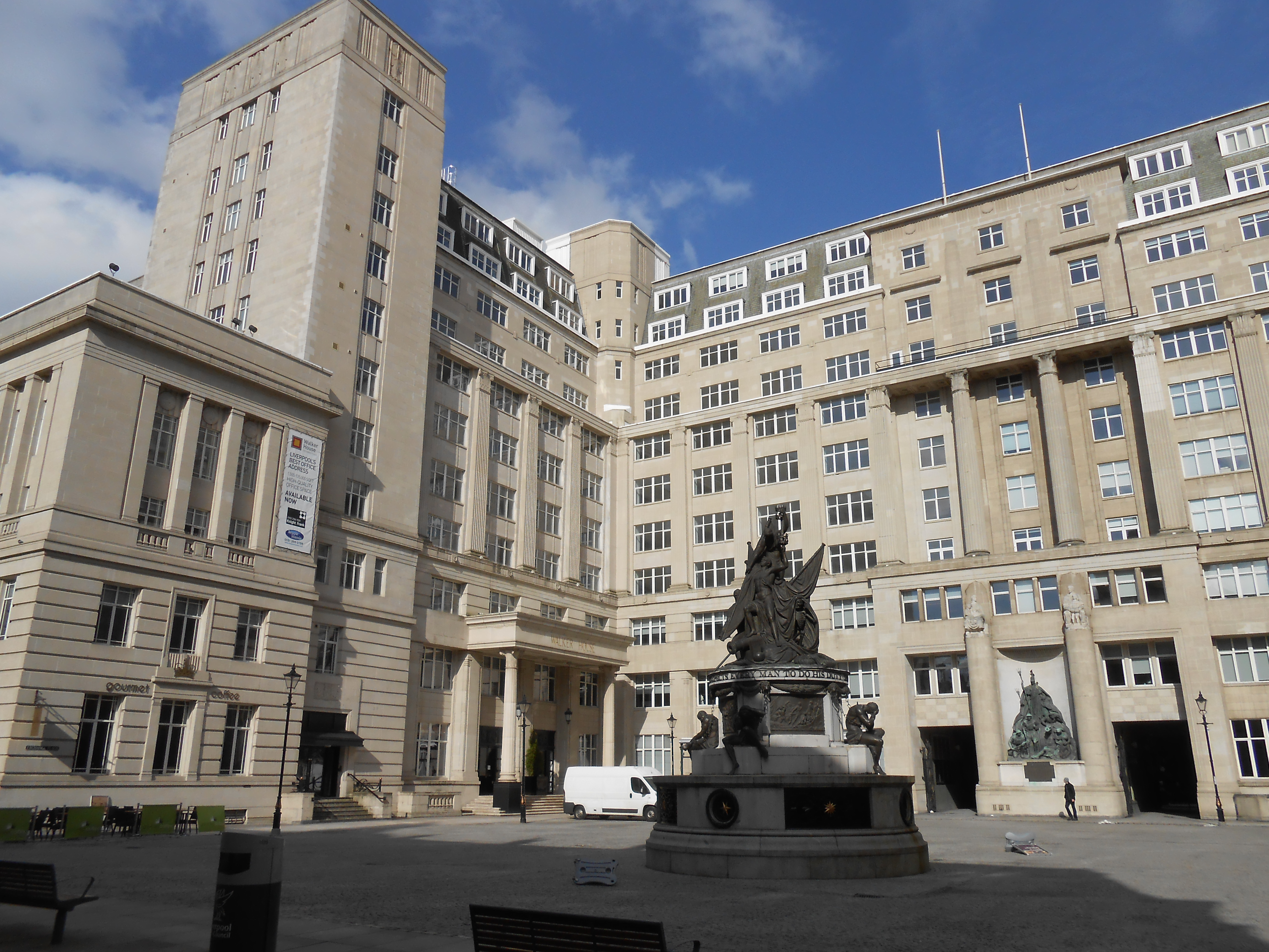 Photo taken at Exchange Flags, Liverpool, England.